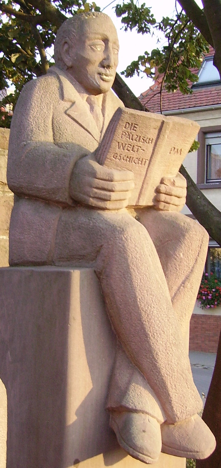 fountain in Ruchheim, part of Ludwigshafen, Rhineland-Palatinate (Germany)